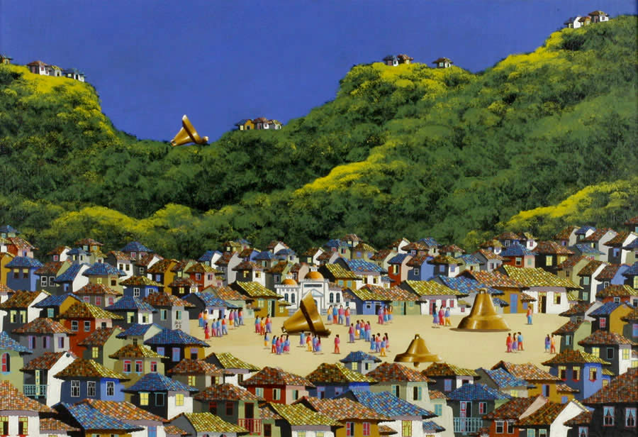 Untitled painting, known informally as "Lloviendo Campanas" (Raining Bells).